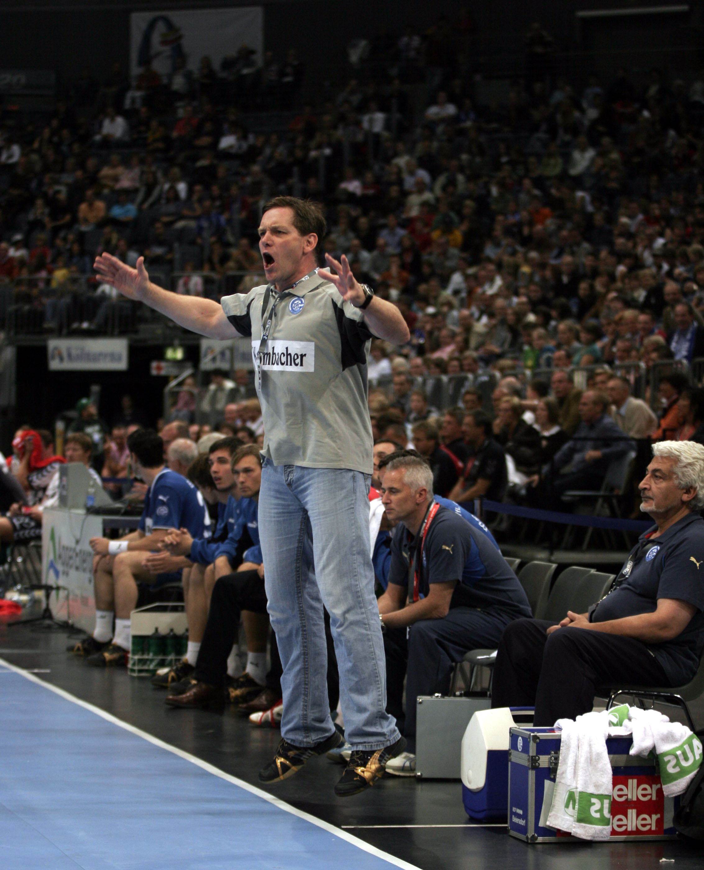 Alfreð Gíslason, handball coach of VfL Gummersbach on September 9th 2007 in the Kölnarena during the game VfL Gummersbach - SG Flensburg-Handewitt